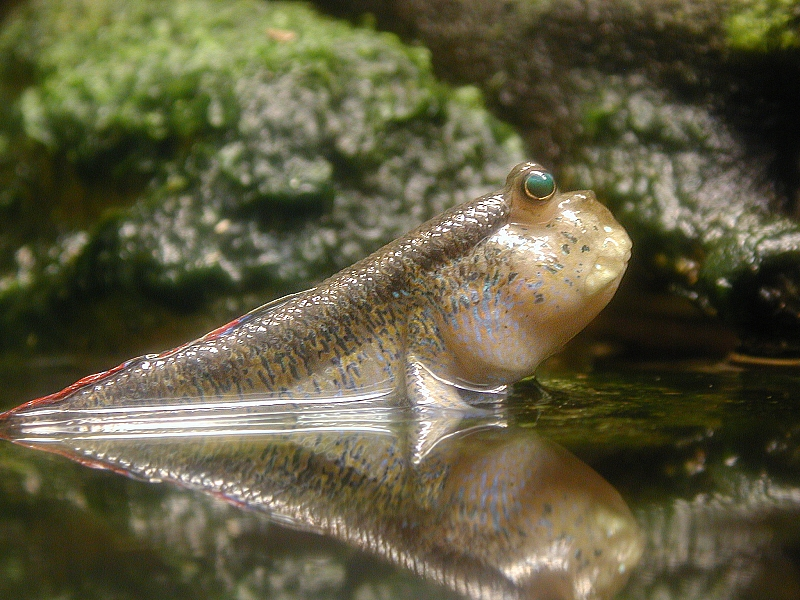 Zoological Garden, Frankfurt/Main, Germany